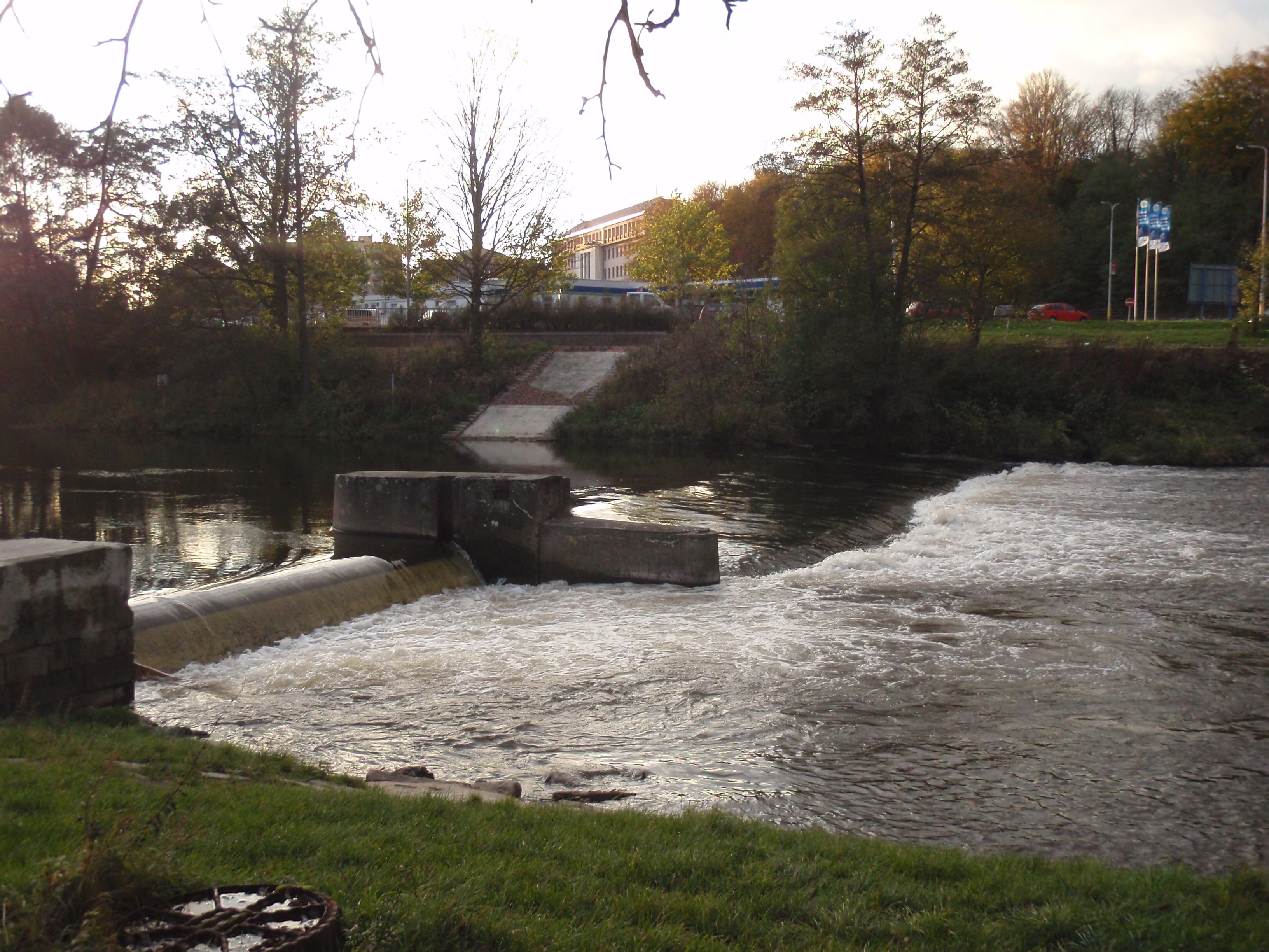 water carried by Solivárna